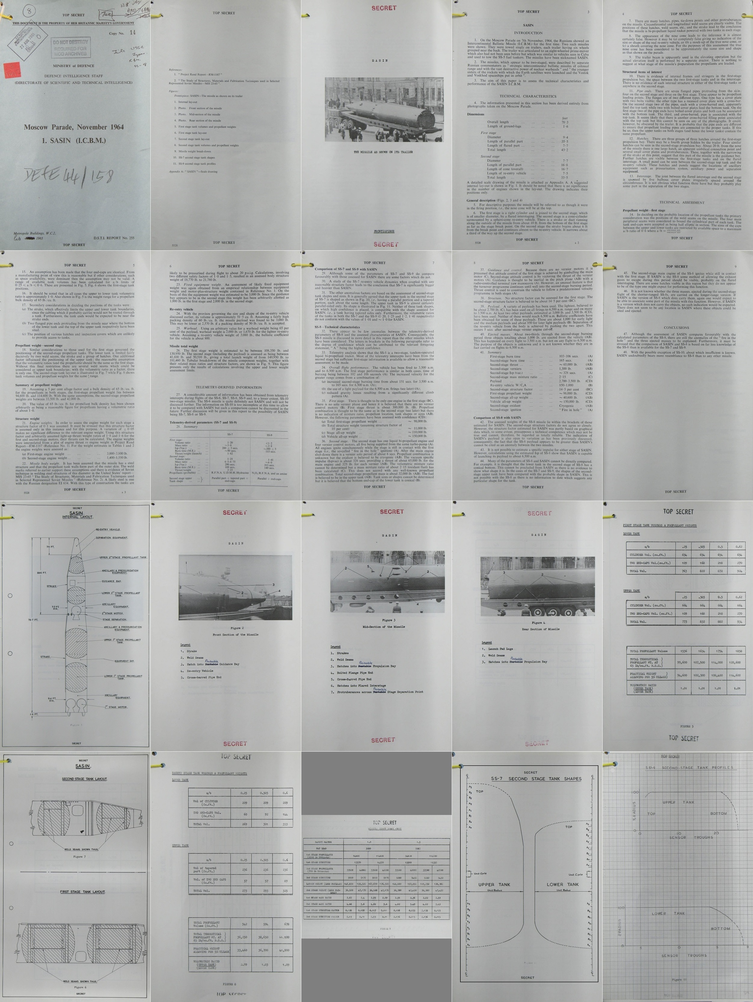 An intelligence assessment of a mobile ICBM carried aboard a truck in the Red Square May Day Military Parade 1964. This missile (Soviet designation R-26) was initially classified as a SS-8 Sasin. However it was later discovered to be an altogether different missile from the SS-8 (Soviet designation: R-9 Desna). The mistaken NATO designation of SS-8 Sasin was never changed, and subsequently caused some confusion amongst Soviet-watchers. This montage of photographs of the declassified UK Ministry of Defence intelligence assessment published in DEFE 44/158 is available to view in The National Archives, Kew, London. The image has been stitched together from every page in the report. The report was created by the UK Ministry of Defence based on intelligence, personal observation by Allied embassy military attachés, and photographs taken of equipment seen in a Moscow Red Square May Day Military Parade 1964, and possibly other intelligence sources. The National Archives file is no longer classified and is in the public domain. UK Crown Copyright expired after 50 years.